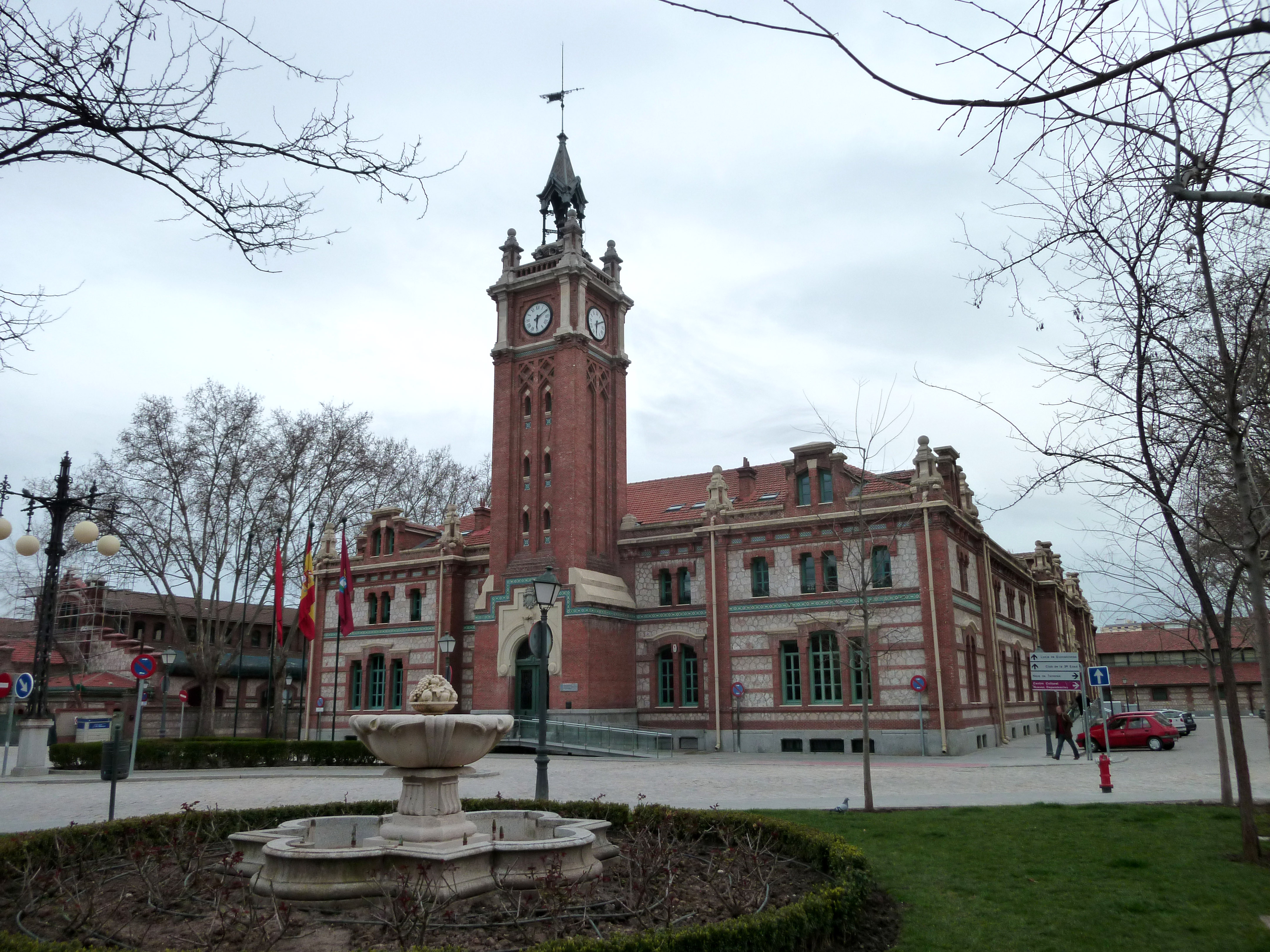 Casa del Reloj ("Clock House"), Arganzuela District Hall in Madrid (Spain), at the former Matadero de Arganzuela. Building was projected by engineer José Eugenio Ribera Dutaste and architect Luis Bellido González, and built from 1910 to 1933.